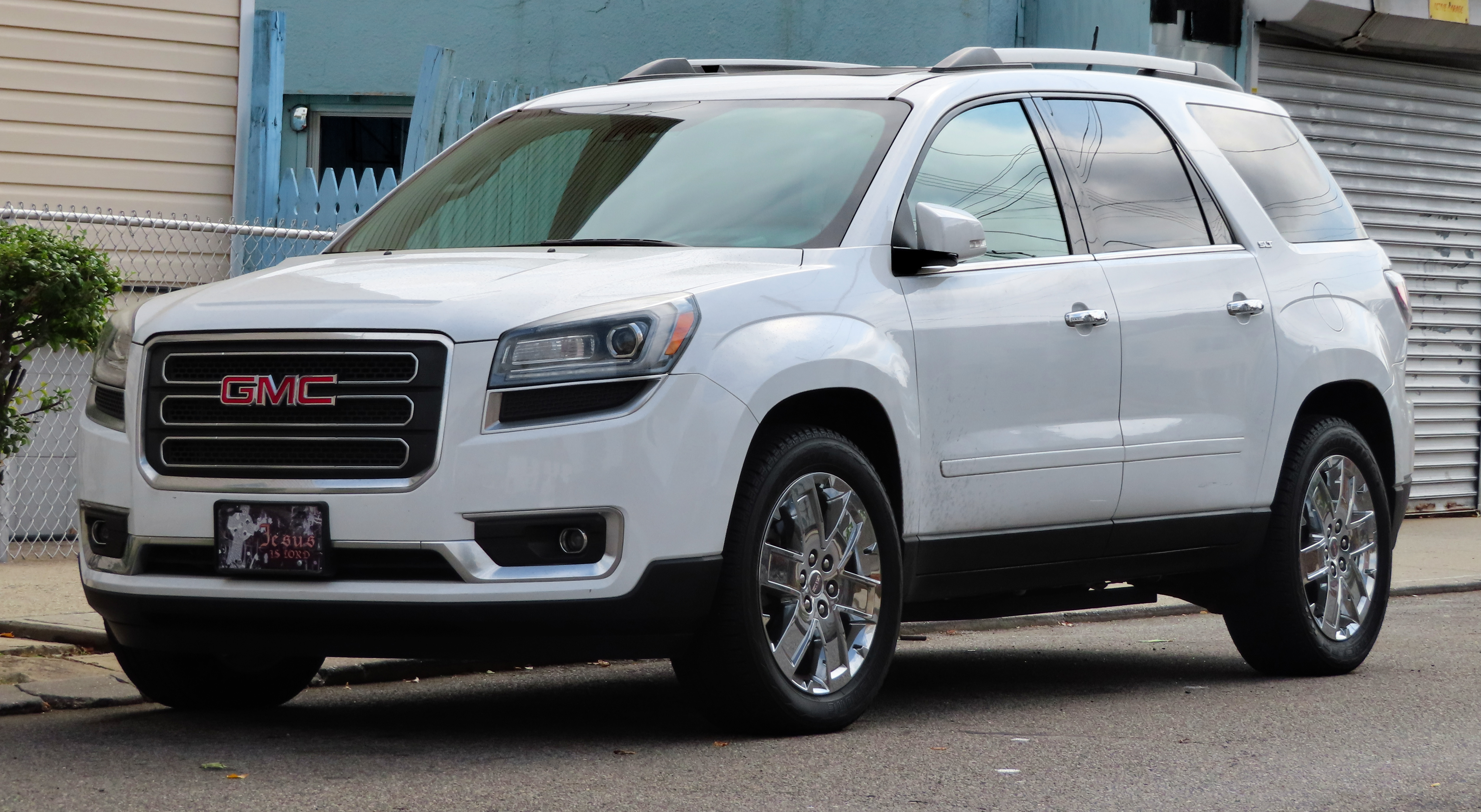 A 2017 GMC Acadia Limited photographed in Jamaica, Queens, New York, USA